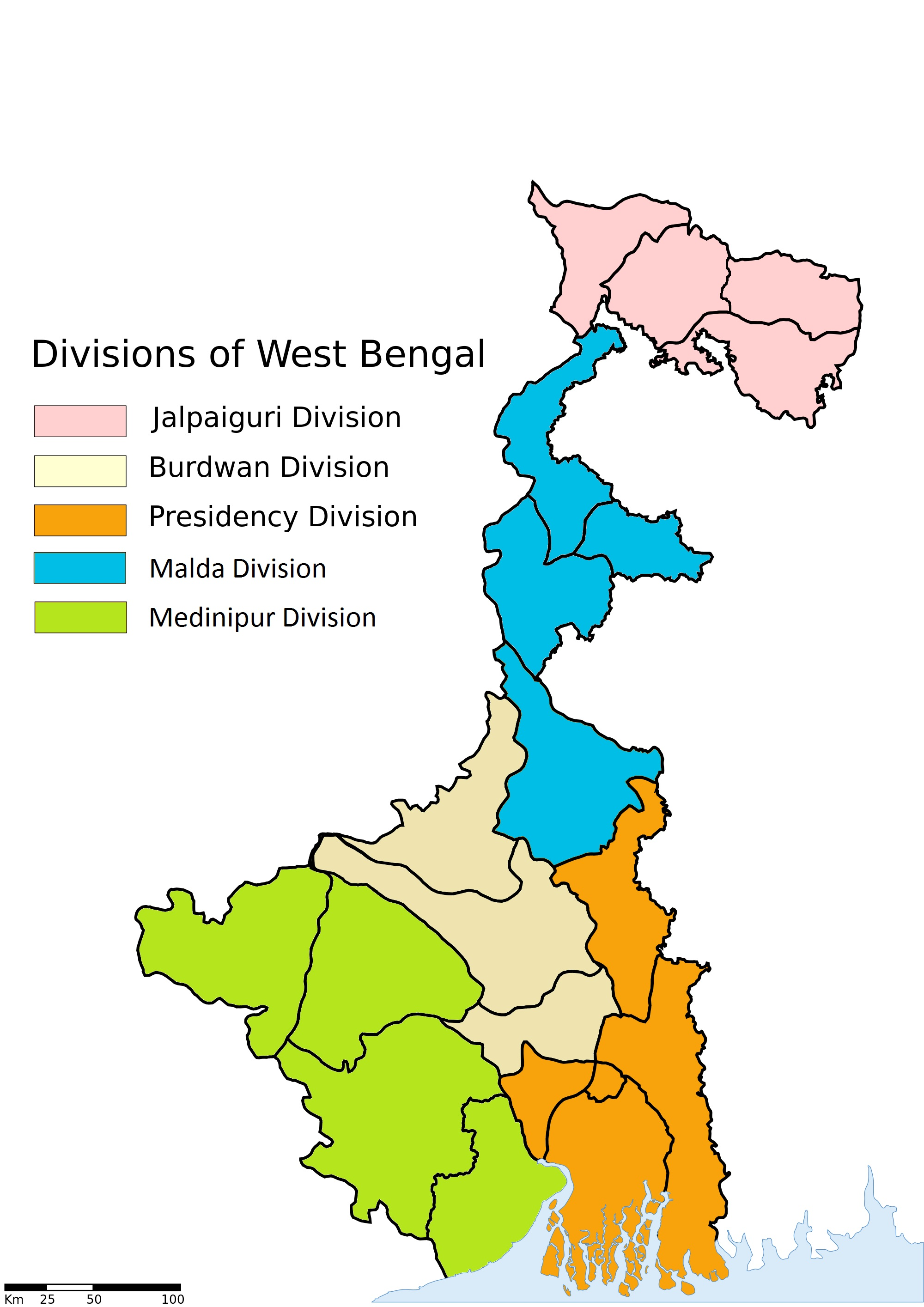 West Bengal Division Map